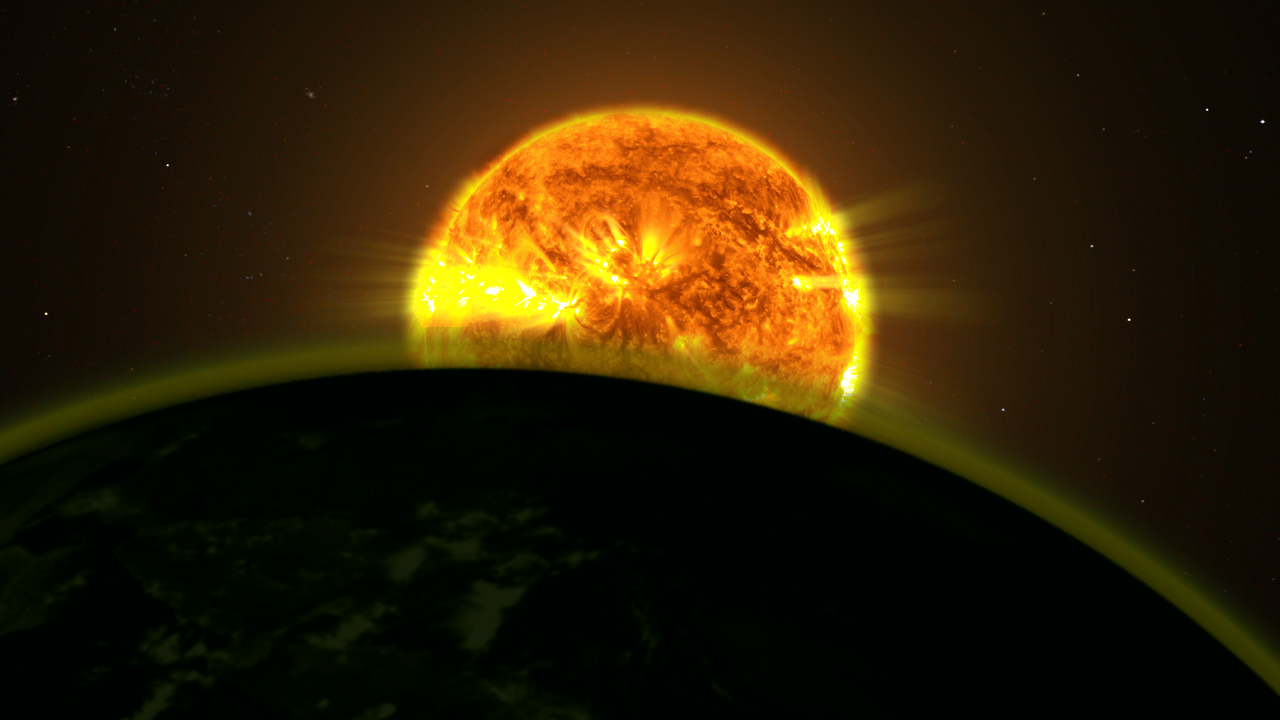 NASA scientists found faint signatures of water in the atmospheres of five distant planets orbiting three different stars. All five planets appear to be hazy. This illustration shows a star's light illuminating the atmosphere of a planet.